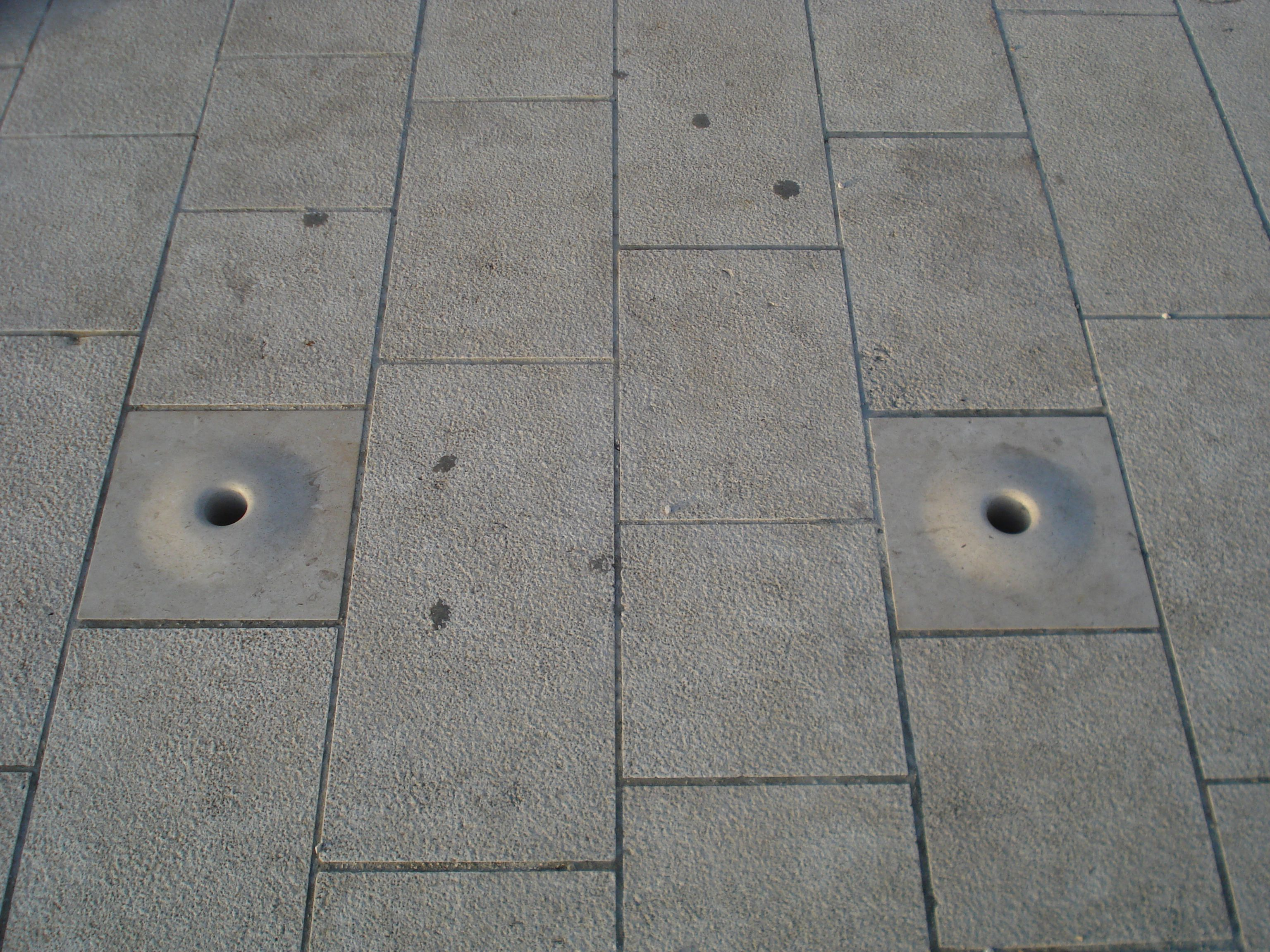 Sea organ, a kind of Water organ of architect Nikola Basić in Zadar / Croatia / Adriatic Sea.